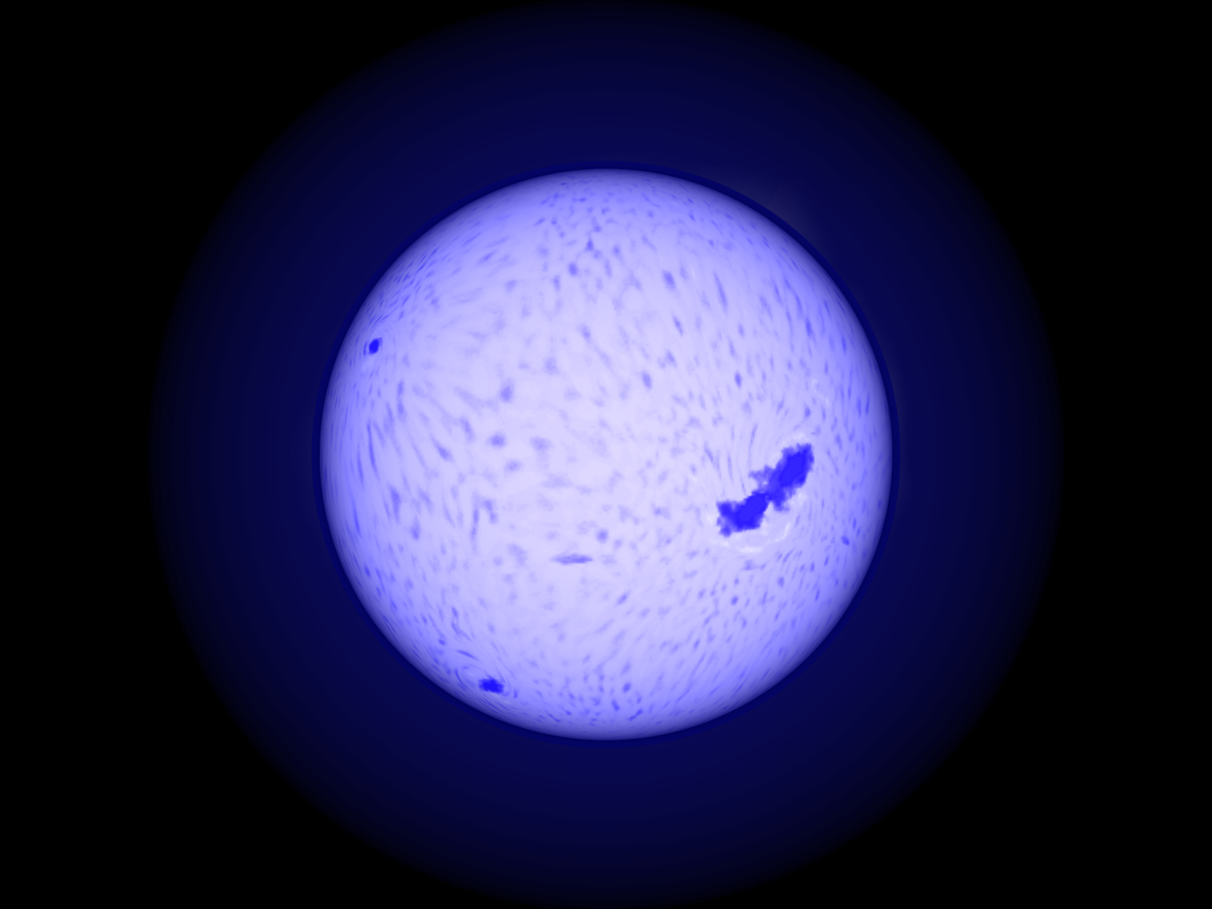 Arrtist made image of B-type blue-white main sequence dwarf star.